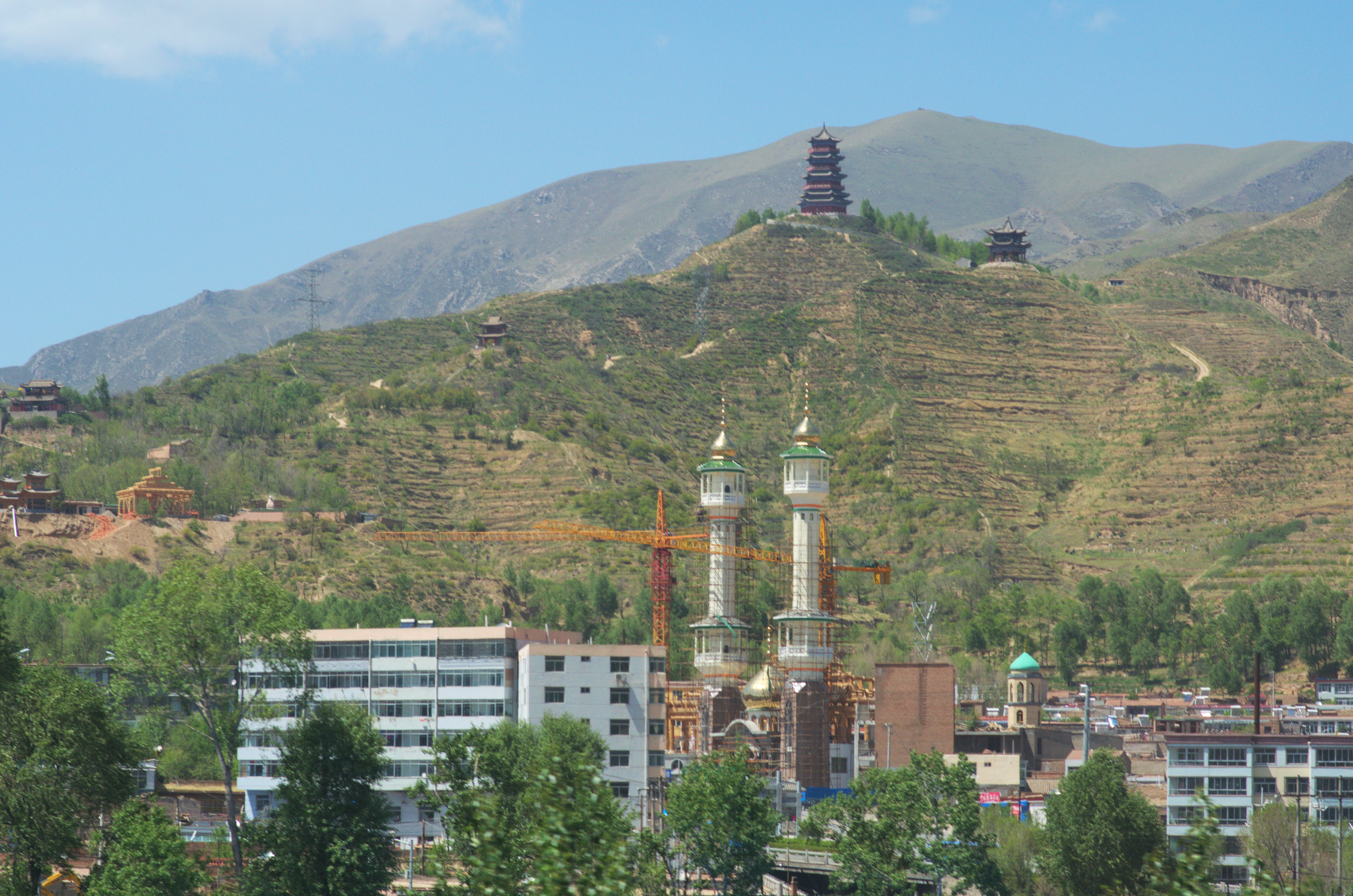 Mosque in main city of Huangyuang County, Xinging municipality, Qinghai province, China. In the background, a tower that could be pagode or pagode style mosque.